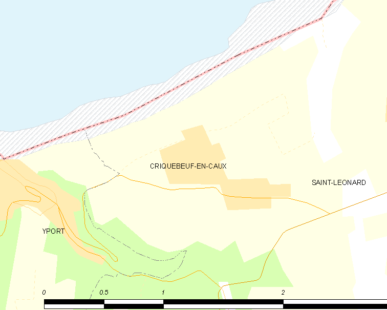 Map of French municipality Criquebeuf-en-Caux